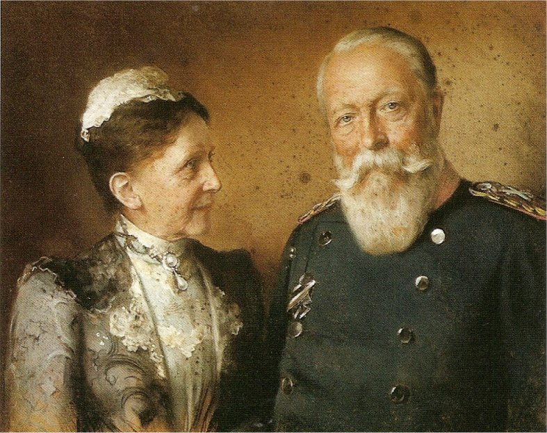 Grand duke Friedrich I. and his wife Luise of Baden, 1902